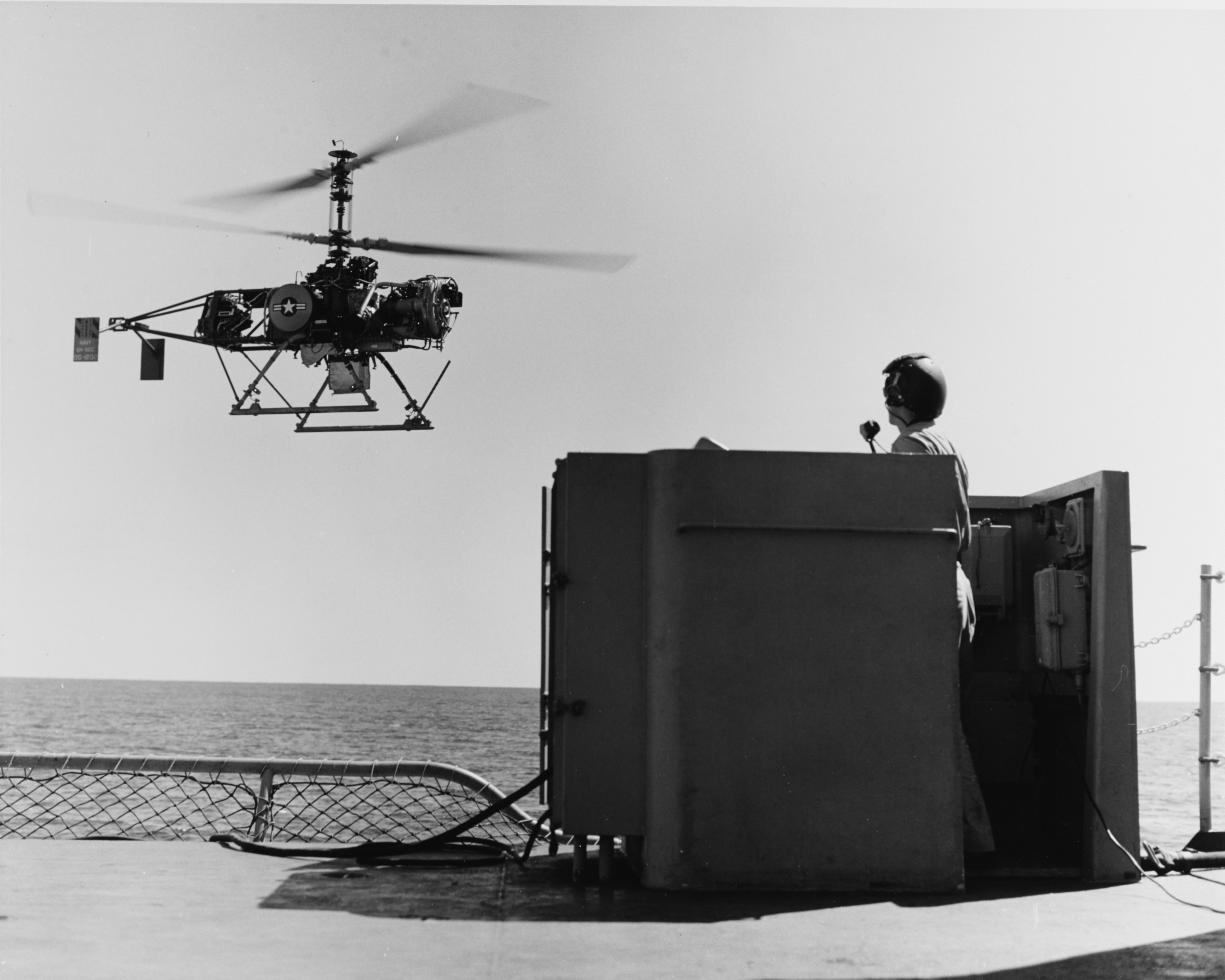 A U.S. Navy Gyrodyne QH-50C drone antisubmarine helicopter (DASH) operates off the flight deck of the destroyer USS Nicholas (DD-449), off the coast of Oahu, Hawaii (USA), on 10 February 1965. The controller was Lieutenant Junior Grade Mark S. Barg, DASH officer of the ship.